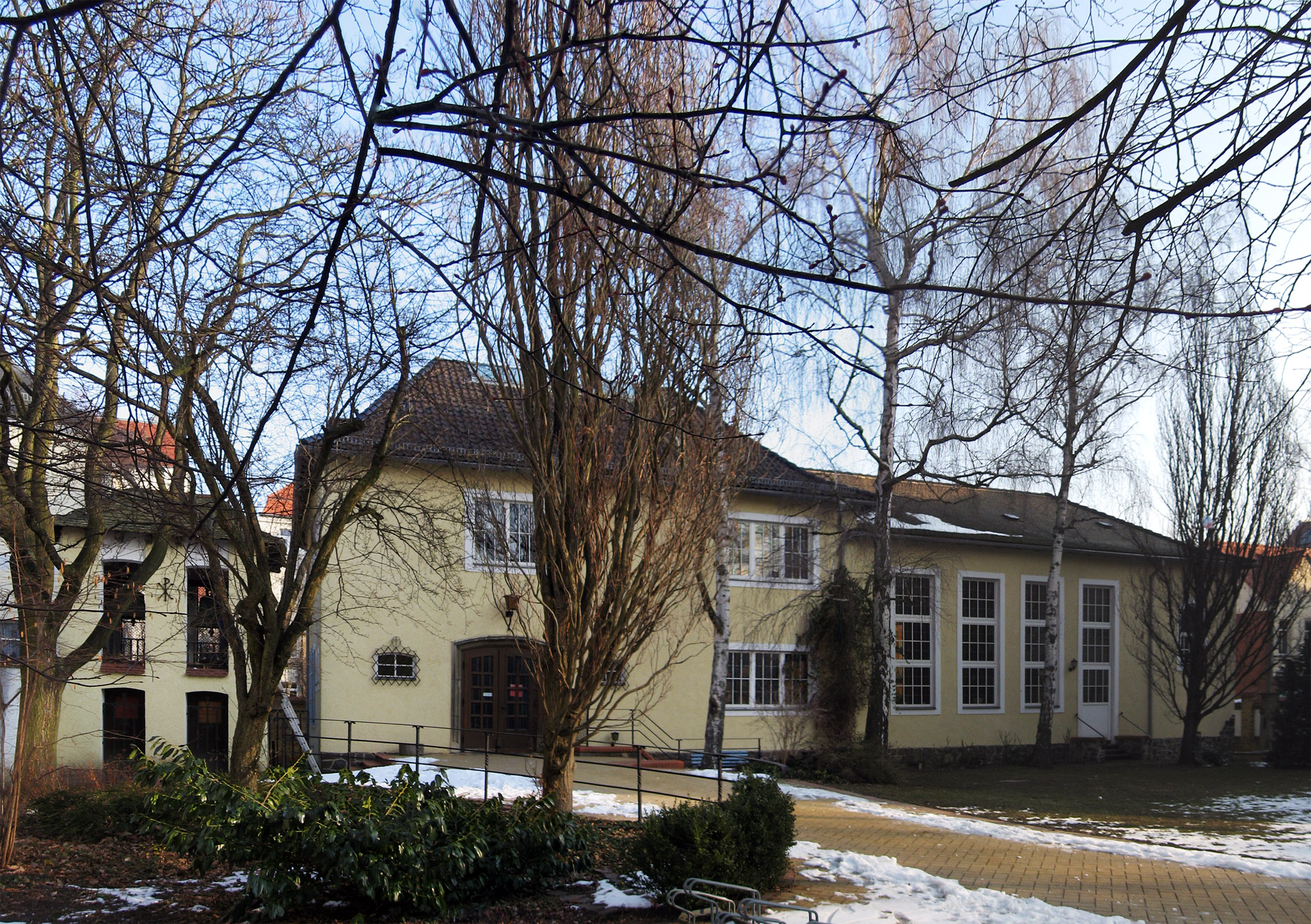 Meeting house of Andreasgemeinde in Leipzig, Scharnhorststrasse 29—31